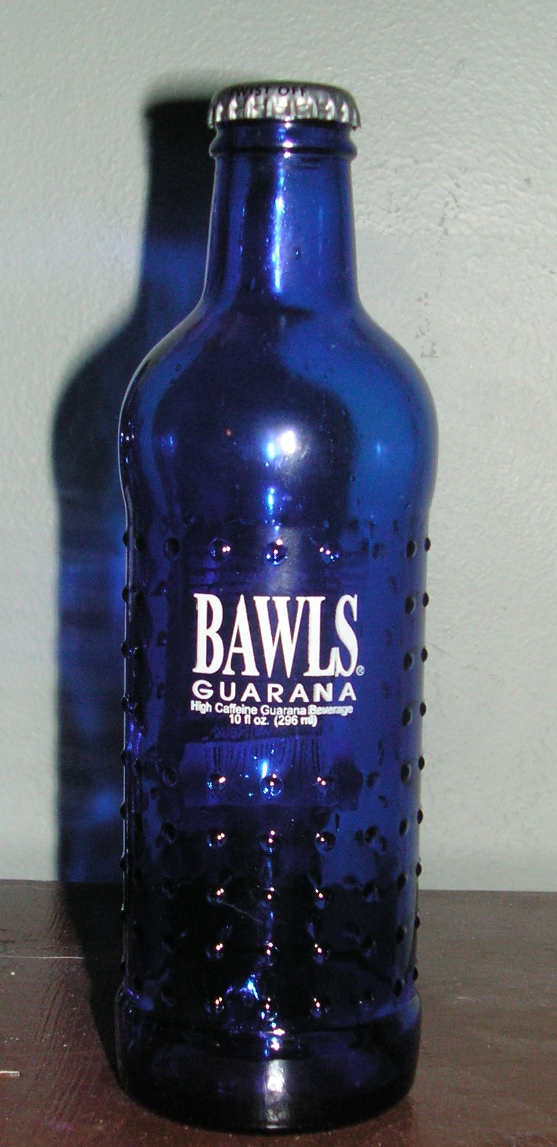 A single BAWLS bottle.